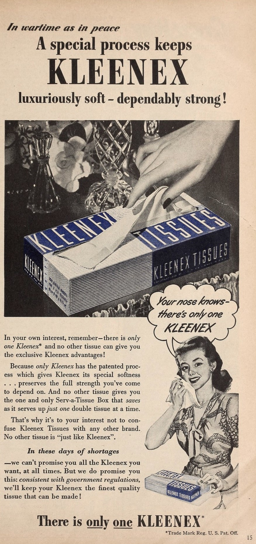 In wartime as in peace - KLEENEX, 1945